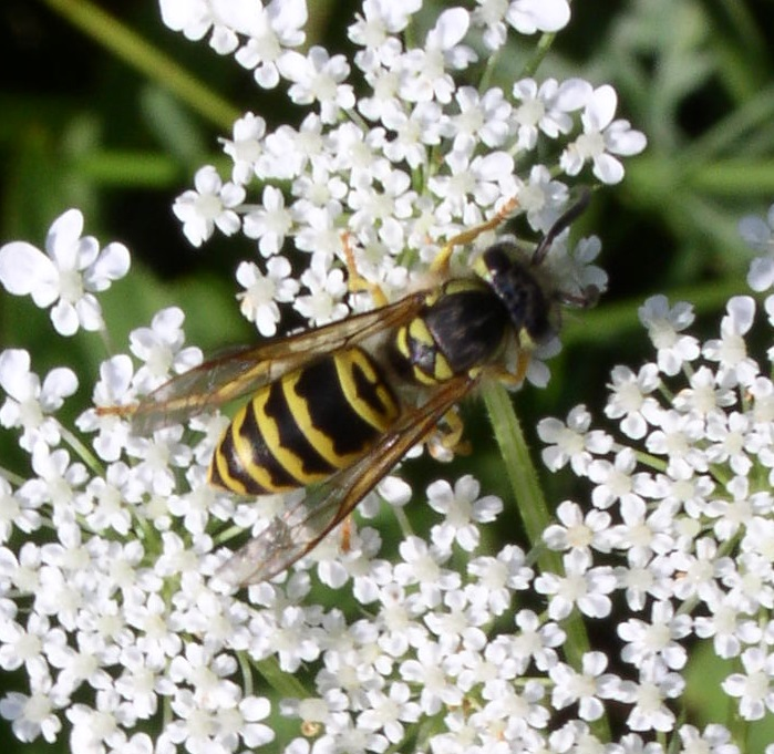 Vespula maculifrons female on Queen Anns's lace. Pennypack Trust, Montgomery County, Pennsylvania, USA.